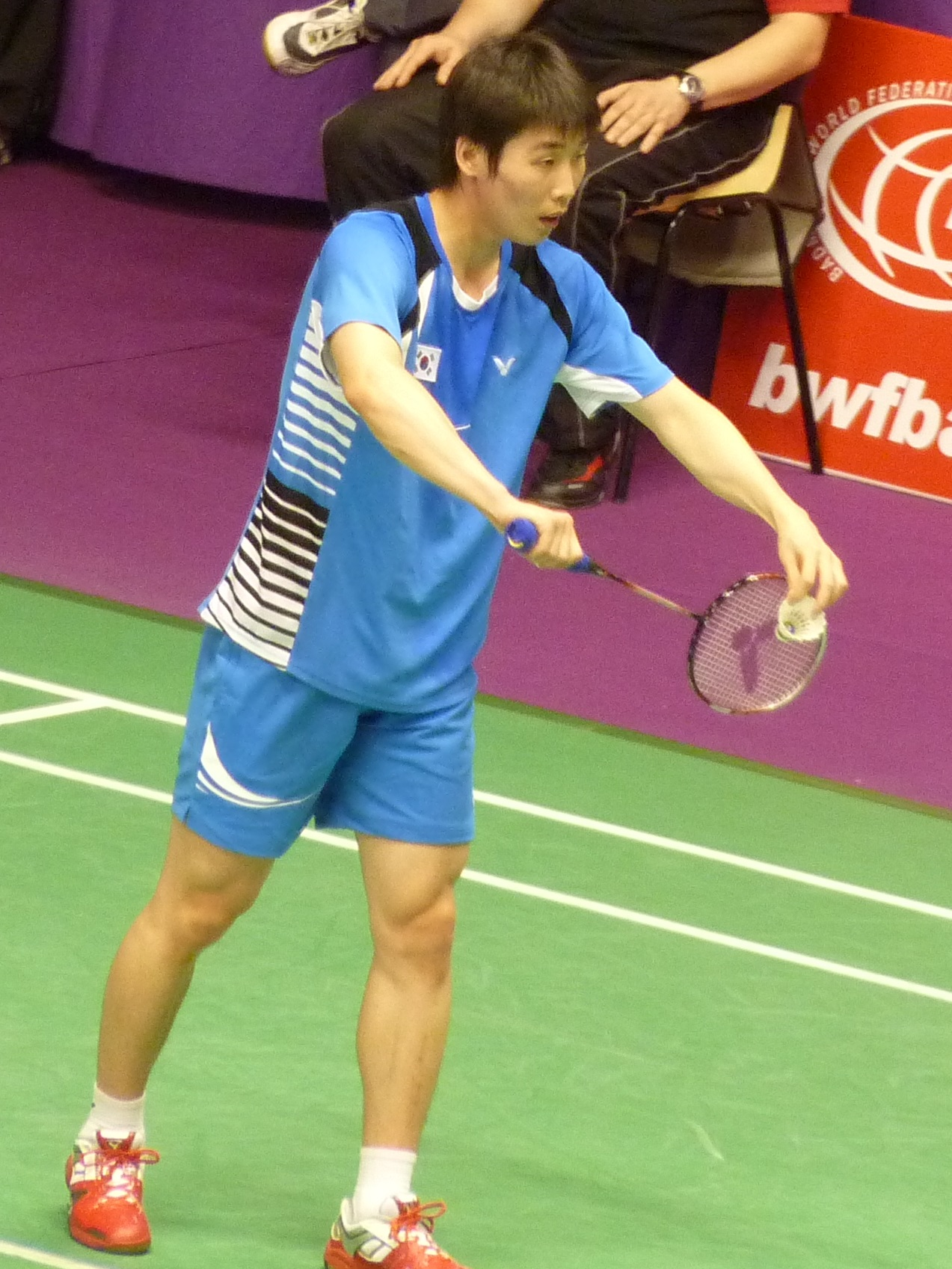 Son Wan-ho (Korea)